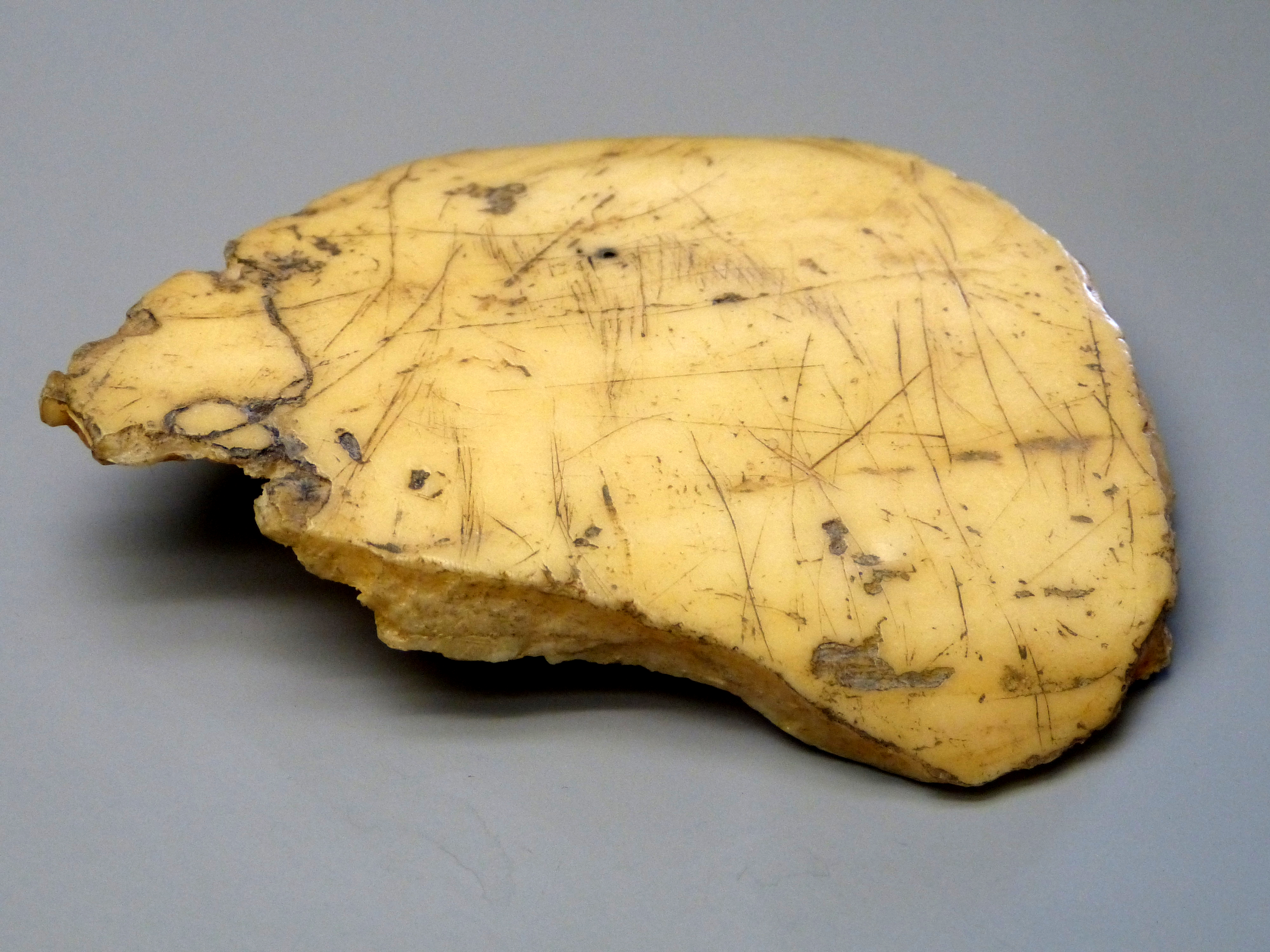 Landau an der Isar ( Lower Bavaria ). Archaeological Museum of Lower Bavaria: Paleolithic engraving of a mammoth on mammoth ivory ( replica ), from Klausen cavern ( Essing )